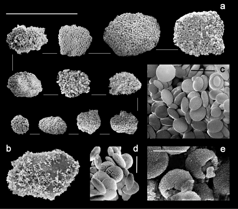 Ovabunda andamanensis sp. n. Holotype (PMBC 11860) SEM image of coated sclerites: a whole sclerite most common form b whole sclerite least common form c microscleres from a disintegrated sclerite d surface ultrastructure of loose microscleres e fractured microscleres. Scale bars: a–b 0.020 mm; c 0.001 mm; d–e 0.0005mm.